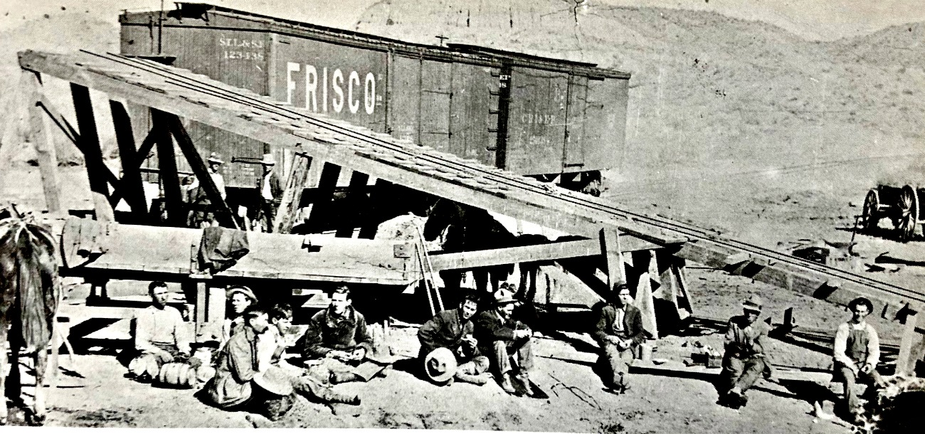 Workers eating lunch. Bullionville, c 1875